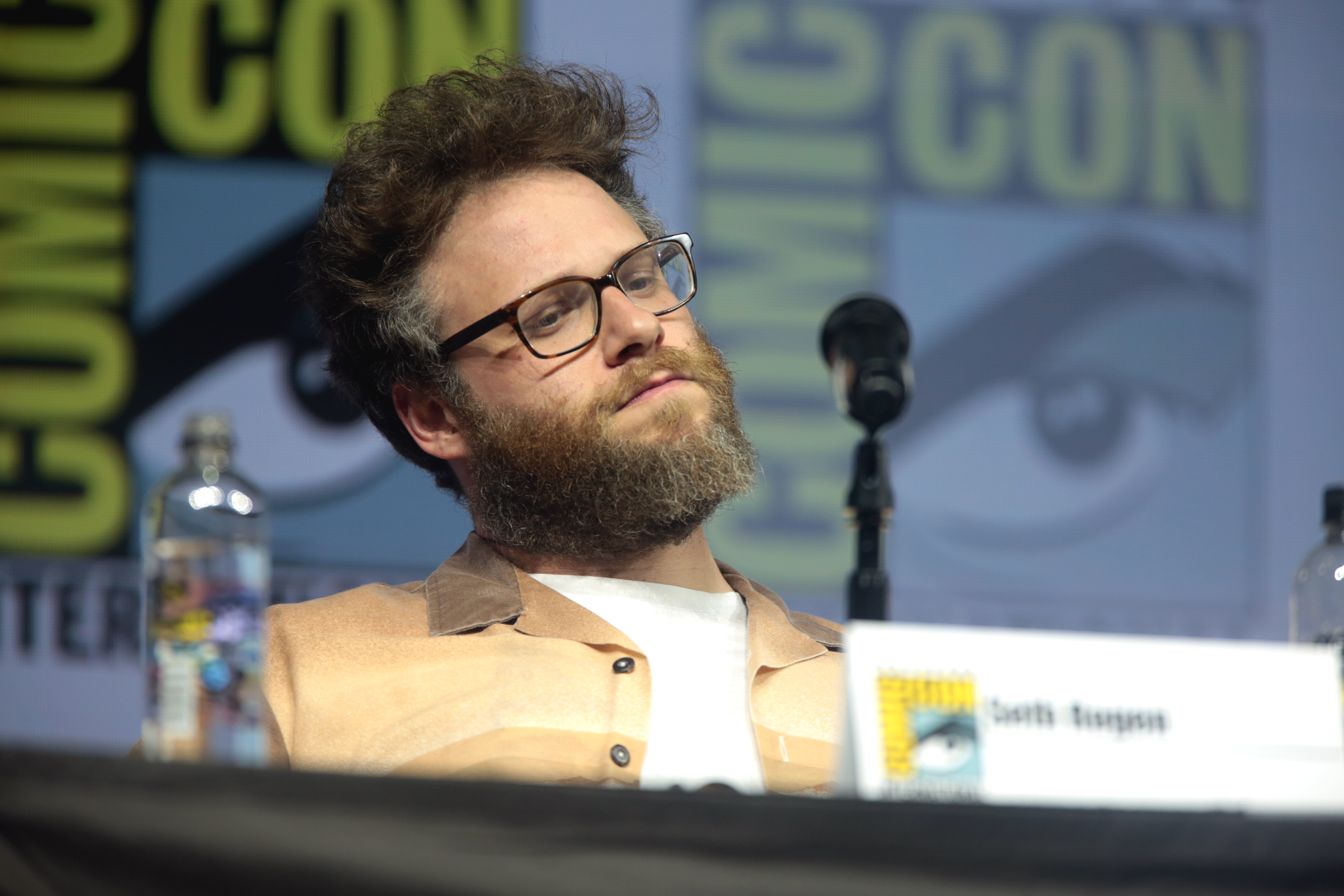 Seth Rogen speaking at the 2018 San Diego Comic Con International, for "Preacher", at the San Diego Convention Center in San Diego, California.